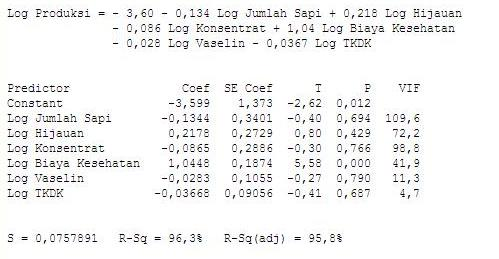 high variance inflation factor in multicollinearity